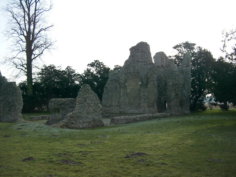 Ruins of Weeting Castle